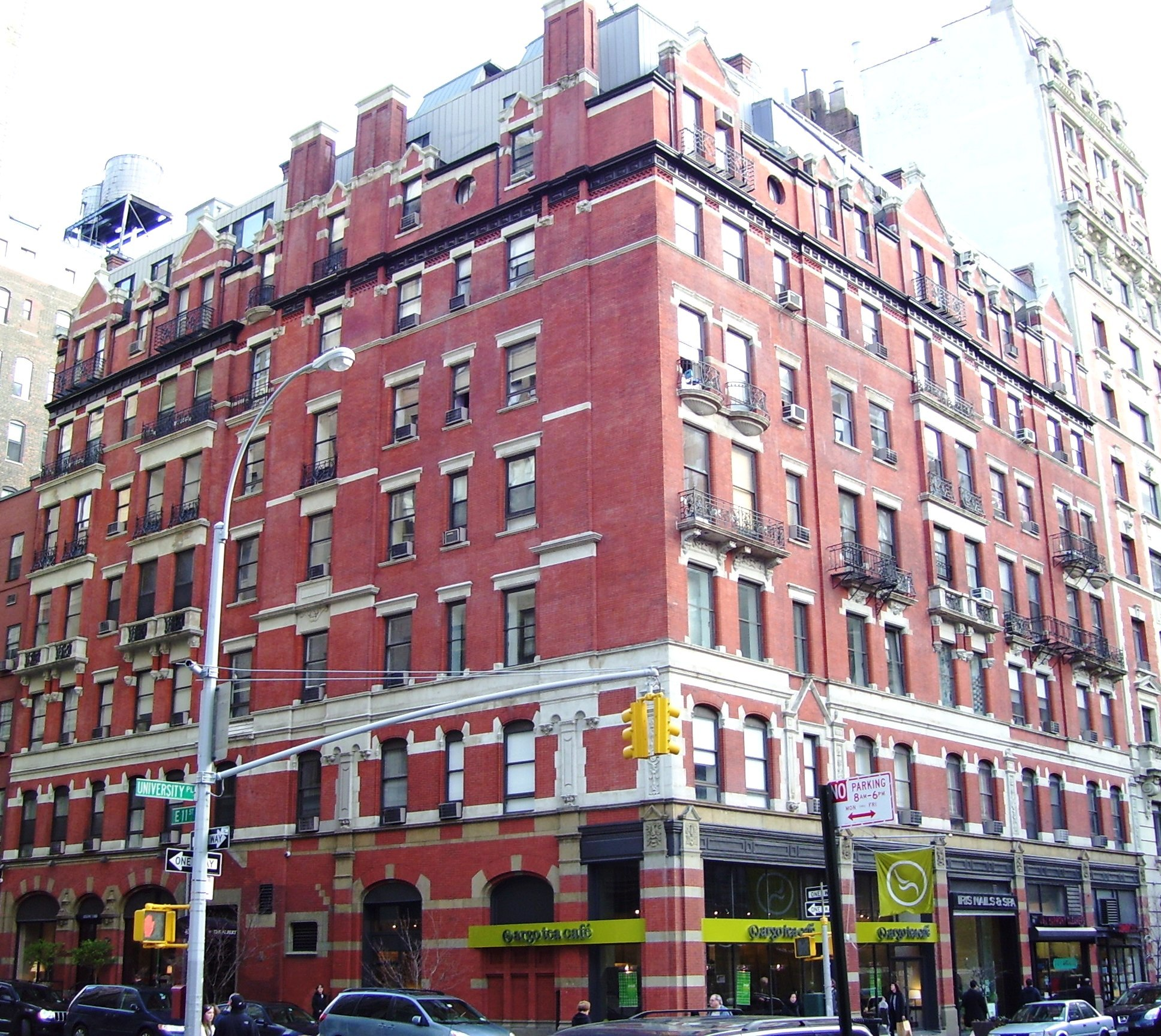 The Albert began with three row houses at 32-36 East 11th Street, off of University Place were turned into the St. Stephen Hotel in 1876-77 to designs by designed by James Irving Howard. The owner, Albert S. Rosenbaum, then commissioned noted architect Henry J. Hardenbergh to build 24 "French flats" (luxury apartments) between the hotel and University Place. Completed in 1883, the were converted into the Hotel Albert in 1886-87. An additional story was added in 1891, and the two hotels merged in the mid-1890s. In 1903-04, a 12 story building was added to the south at 67 University Place, designed by Buchman & Fox, and in 1922-24 a six story building on the corner at 23 East 10th Street, designed by William L. Bottomley and Sugarman, Hess & Berger, while the St. Stephen was given an entirely new facade in the 1920s, and let go for commercial lease. In 1977 the entire complex, including the St. Stephen, was converted to rental apartments as The Albert. It was then converted to a co-operative in 1984. The building was listed on the NRHP in 2012. (Sources: Hotel Albert History and NRHP registration form) This image shows the original Hotel Albert building at 40 East 11th Street.